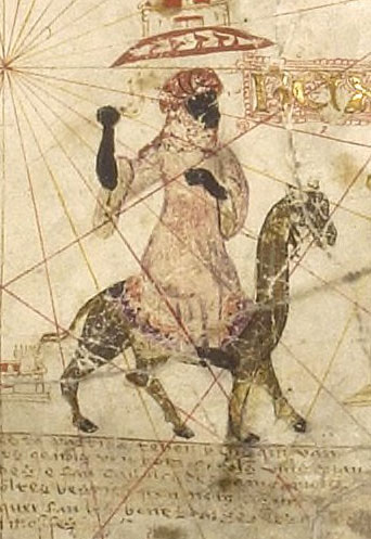 Possible depiction of the 11th C. Almoravid general Abu Bakr ibn Umar ("Rex Bubecar"), in the 1413 portolan chart of Mecia Viladestes.